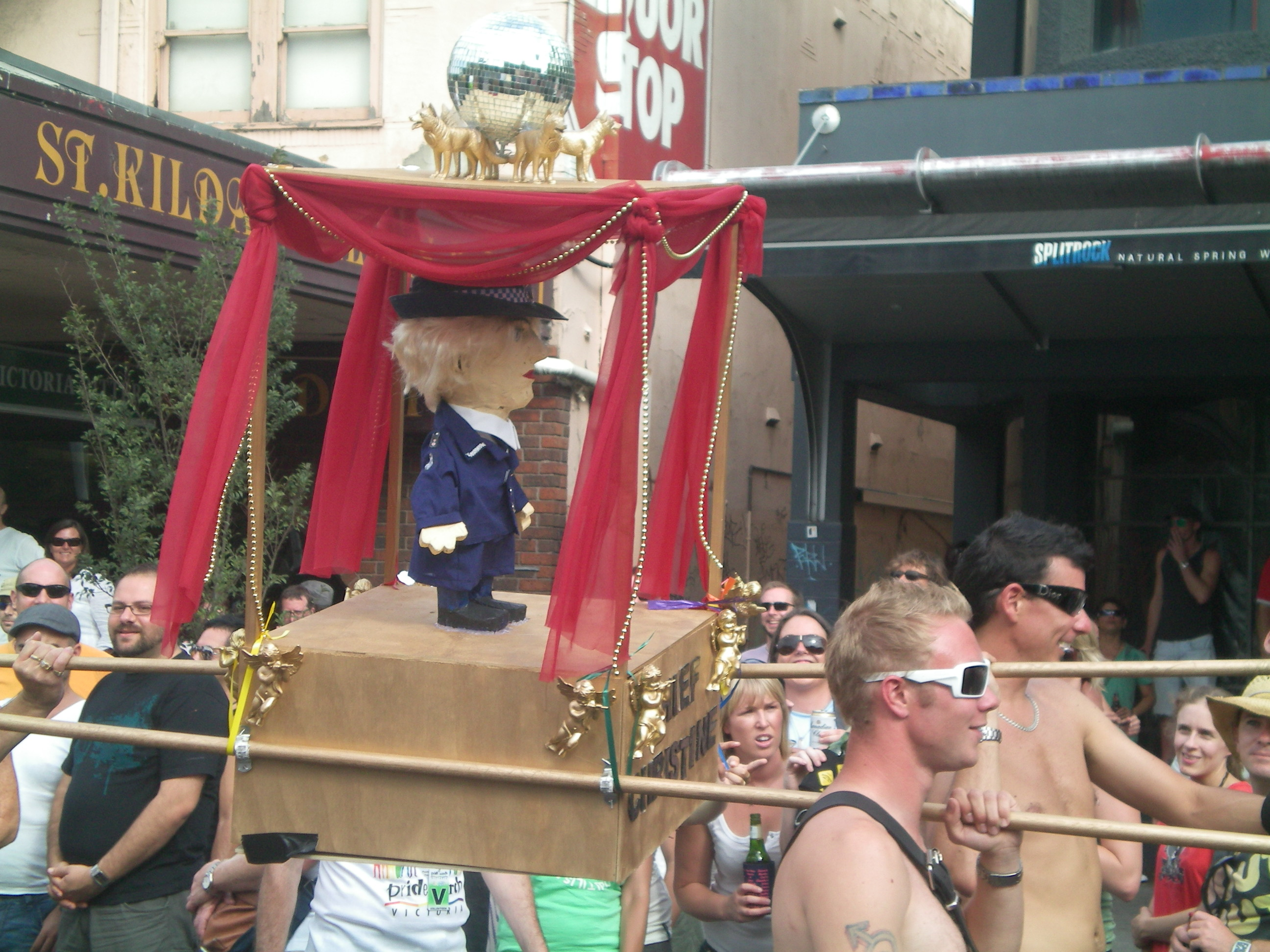 March in support of the police at the 2009 Midsumma festival, St. Kilda, Victoria.